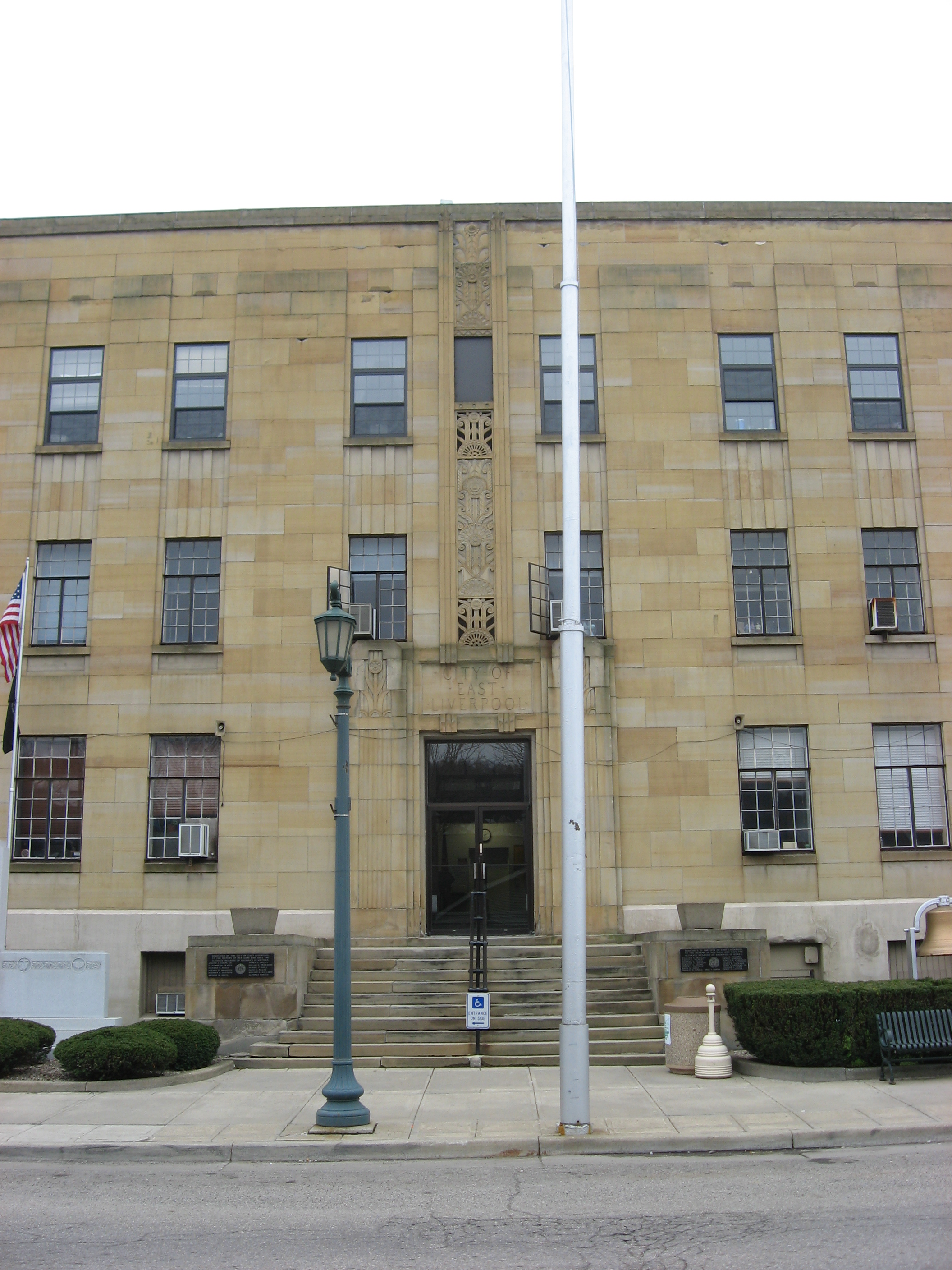 Entrance to the East Liverpool City Hall, located along West Sixth Avenue in downtown East Liverpool, Ohio, United States. Built in 1934, the building is listed on the National Register of Historic Places.